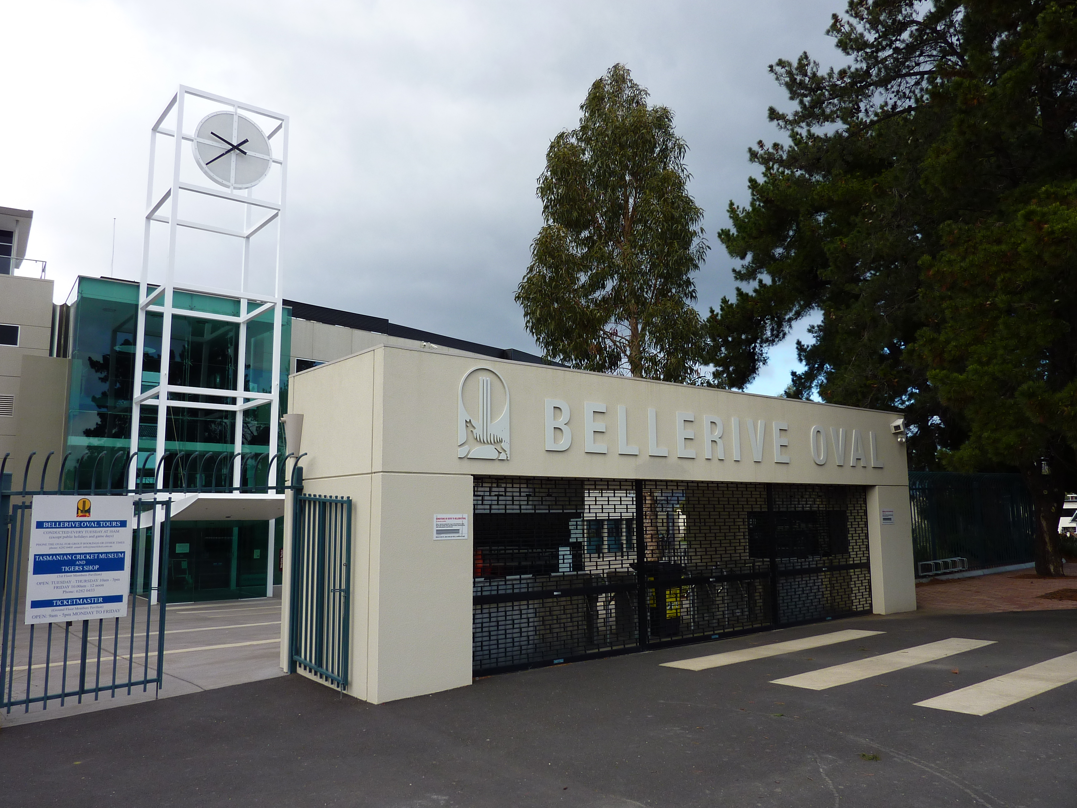 Front gate of Bellerive Oval Hobart